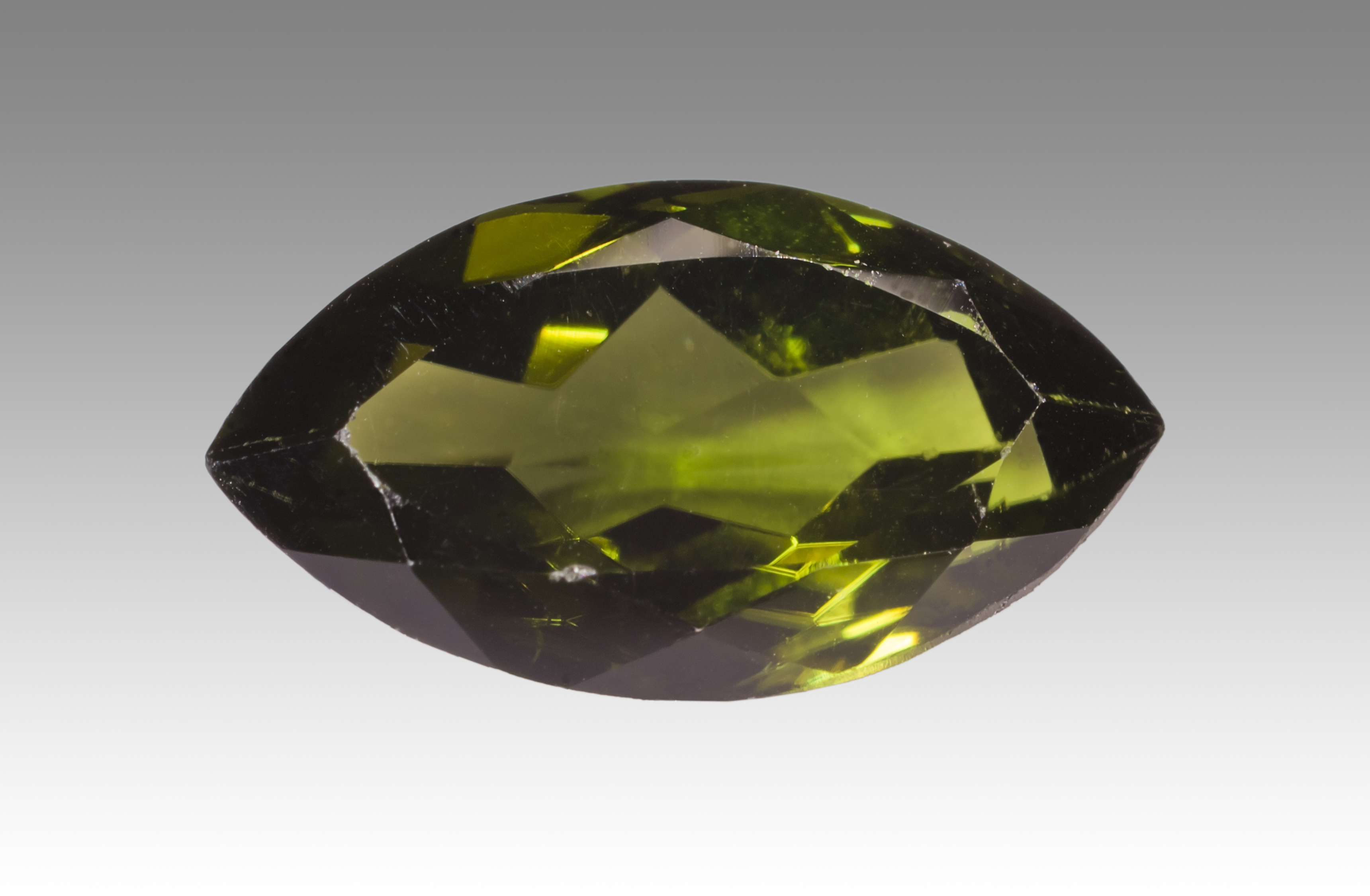 Diopside - Cut Locality: Madagascar Size:, 1.02 x 0.57 x 0.35 cm cm 1.36Cts